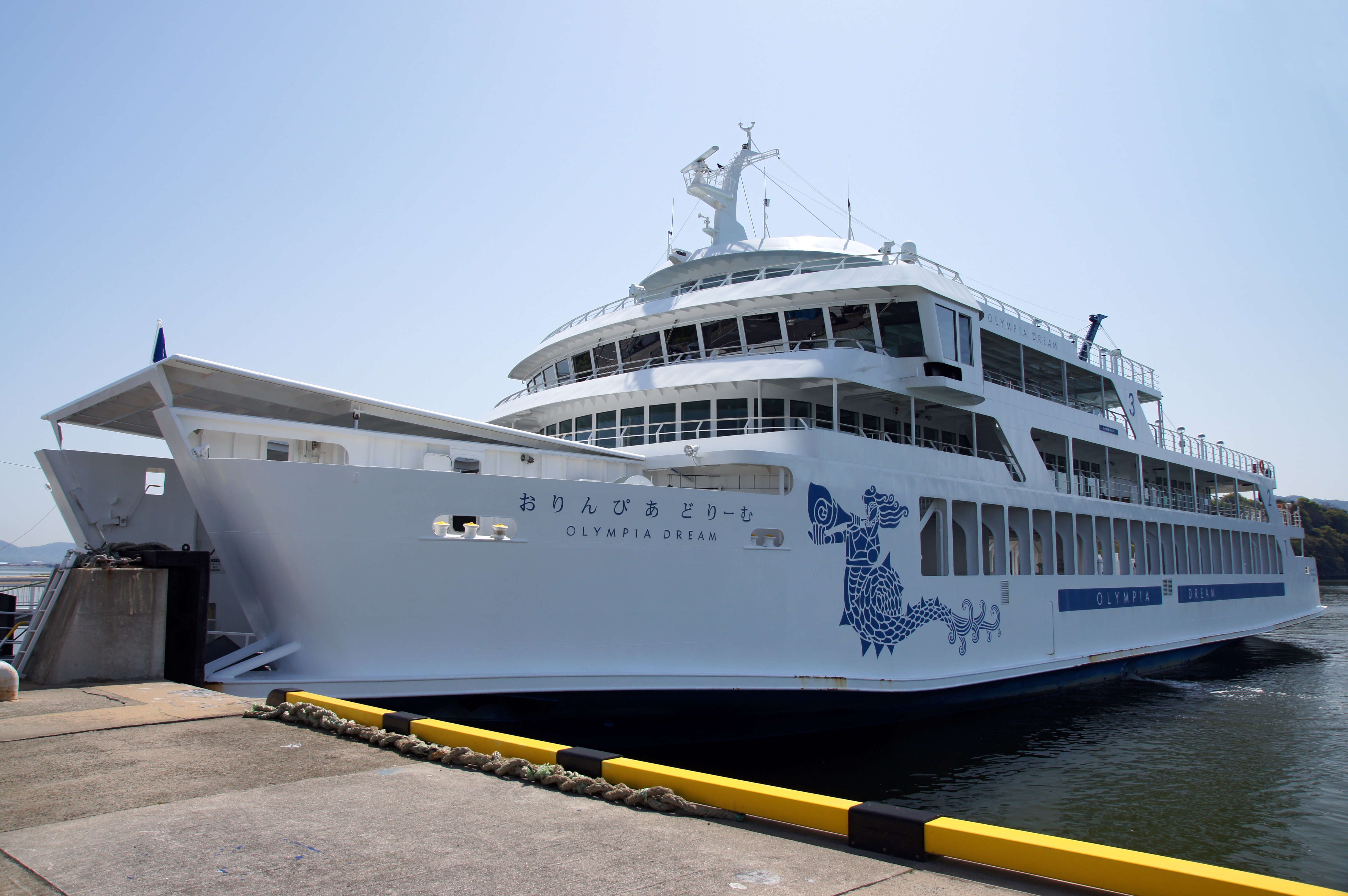 Shin-Okayama_Port in Okayama, Okayama prefecture, Japan